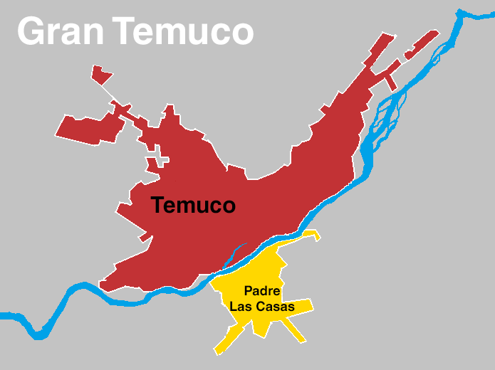 Plotted image of Greater Temuco.